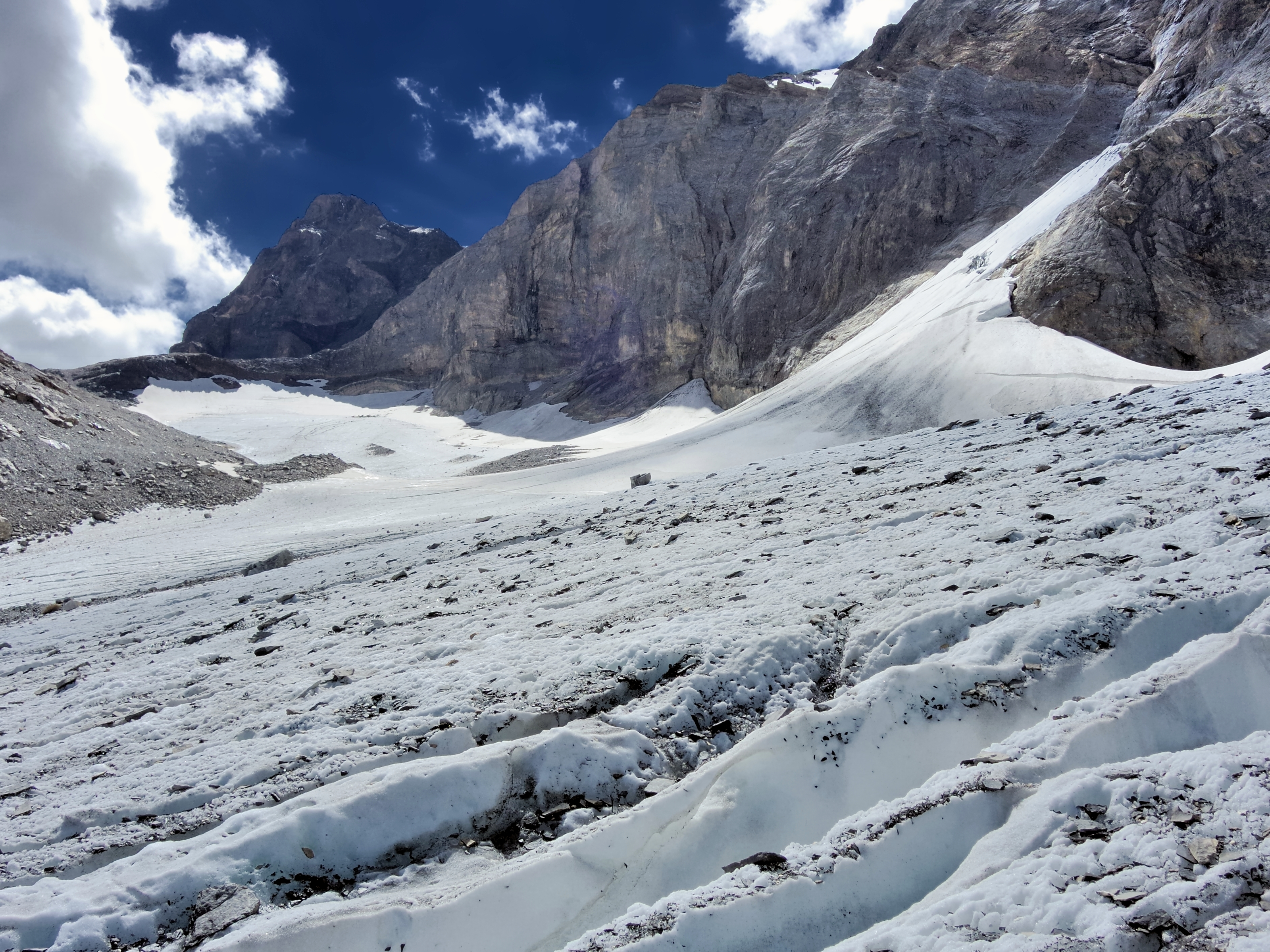 View from the Lötschengletscher. The photo was taken from above the trail crosing the glacier.